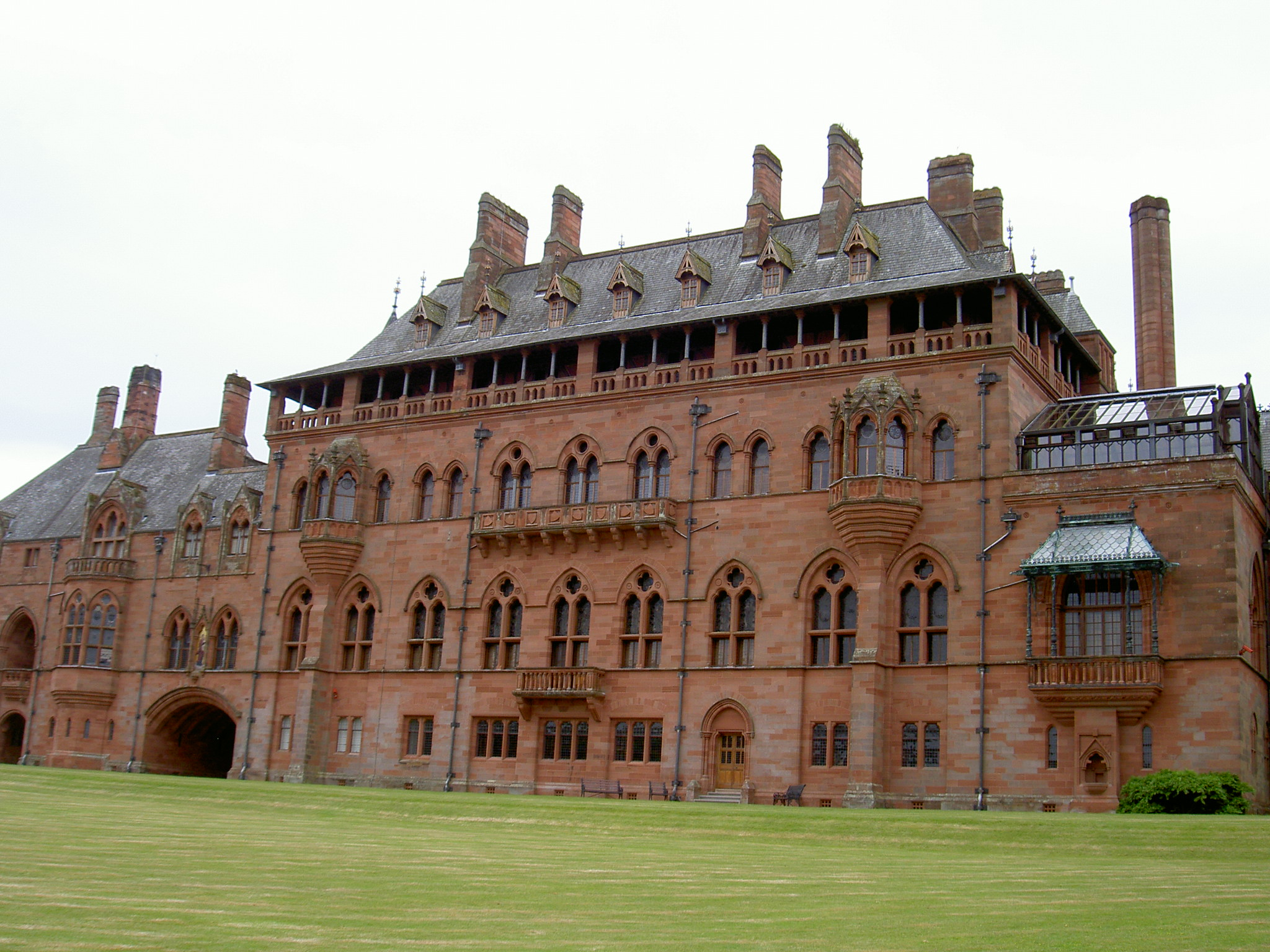 Mount Stuart from the front.